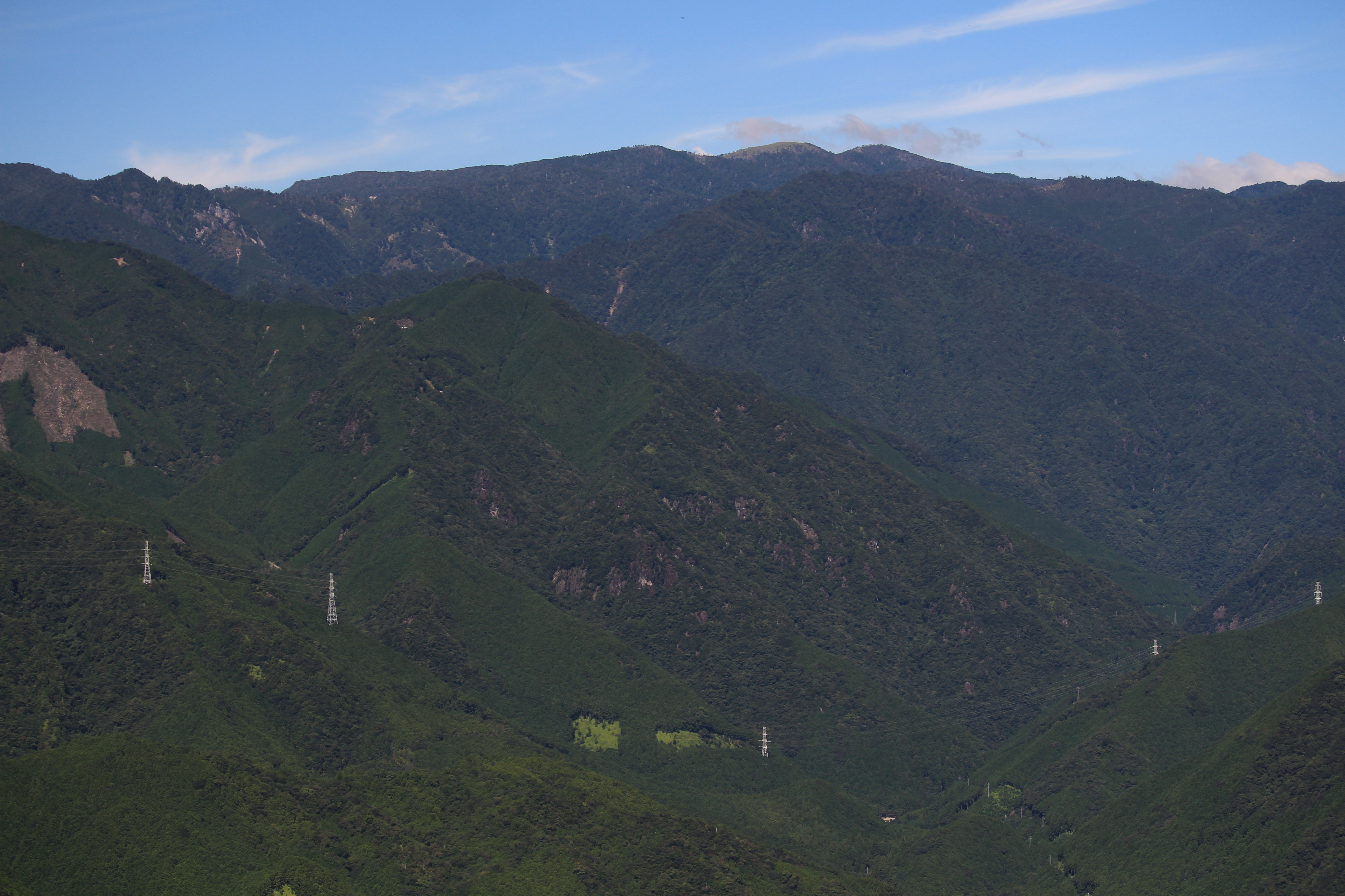 Mount Odaigahara seen from Mount Tengura in Mie prefecture, Japan.